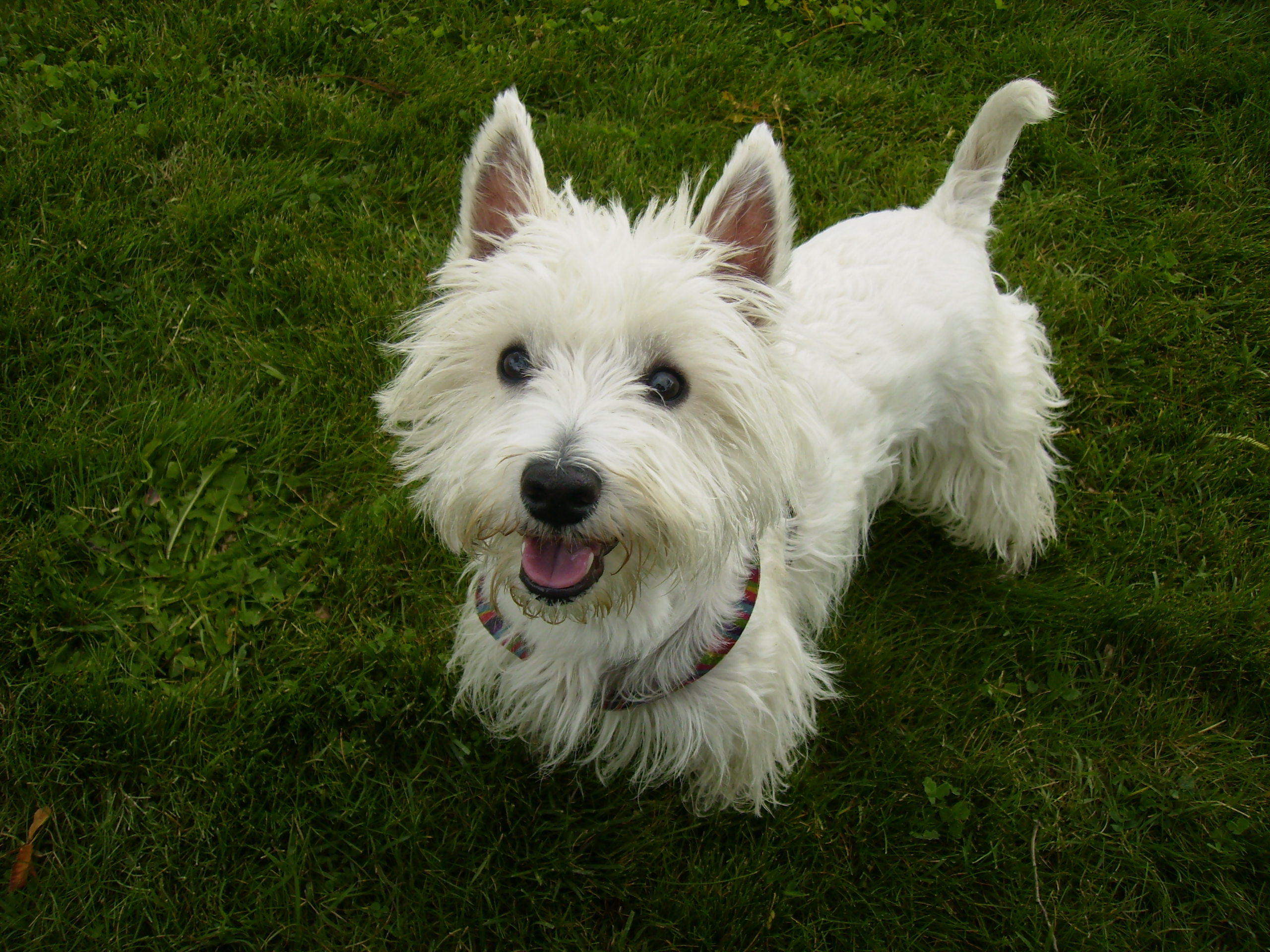 West Highland Terrier